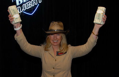 Sally Boyer, 2007 World Series of Poker Ladies World Champion